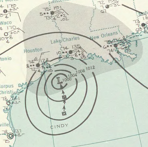 Surface weather analysis of Hurricane Cindy on 17 September 1963.